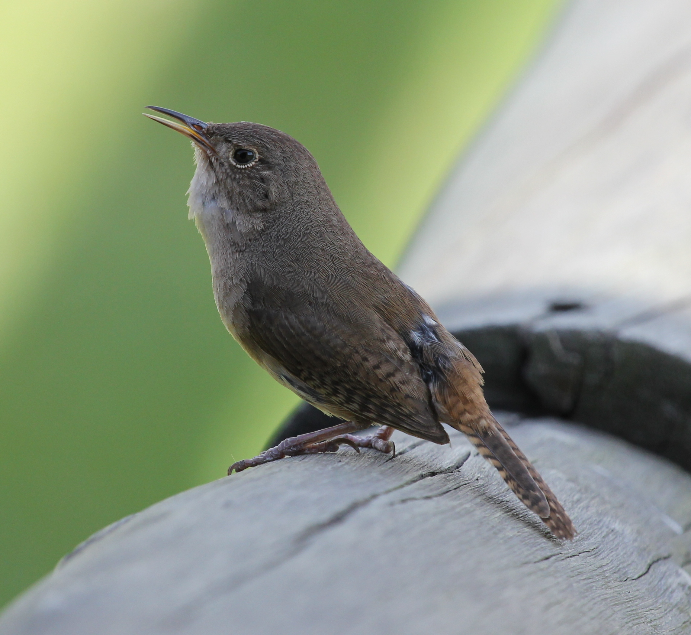 Troglodytes musculus singing, Esteros del Iberá, Argentina